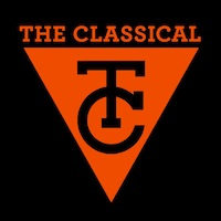 It is a low-resolution version of the logo for the site The Classical, which is viewable on every page of the site.